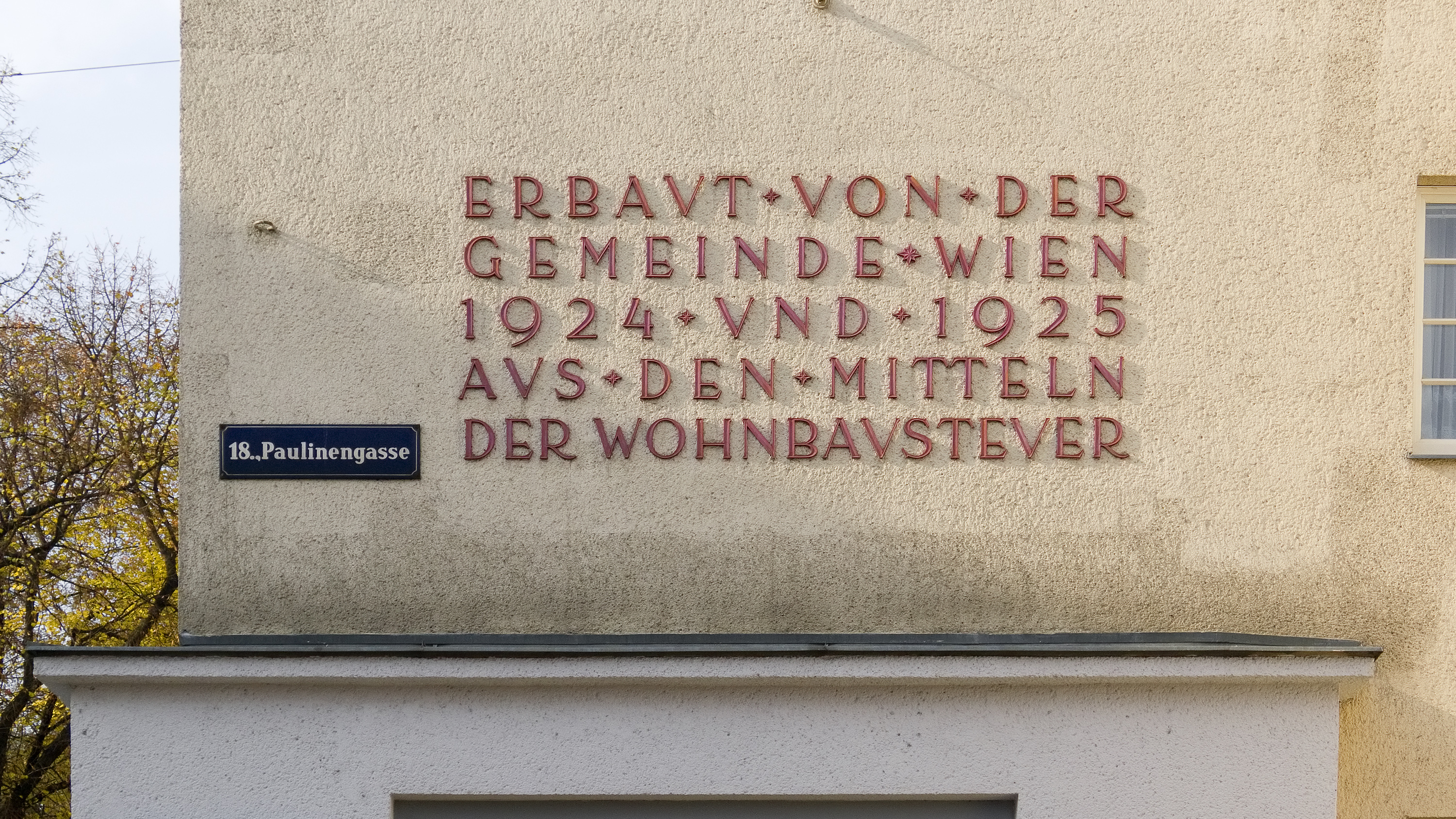 Residential building Lindenhof in Vienna 18